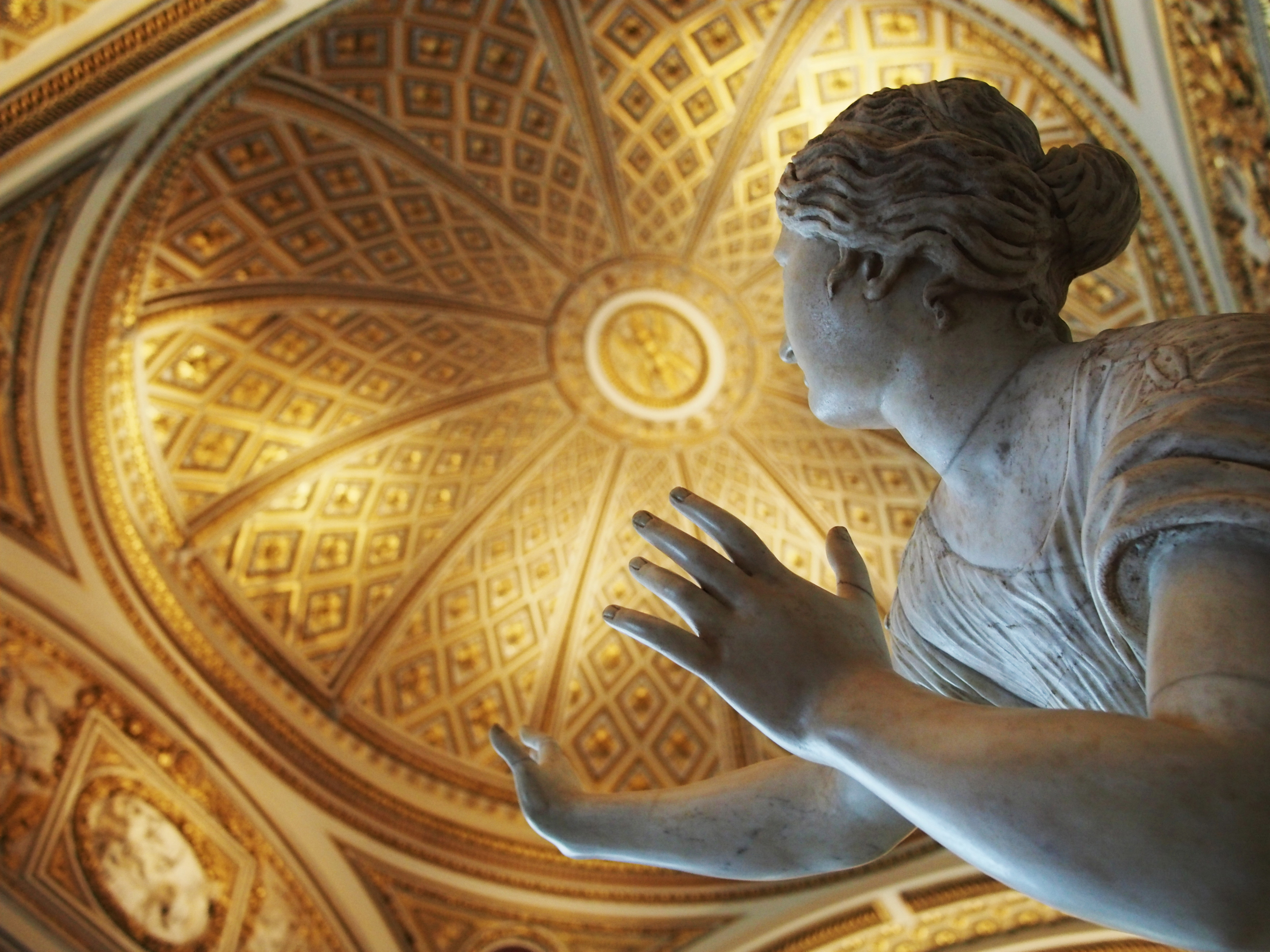 Daughter of Niobe bent by terror of Artemis. Uffizi Gallery - Sala della Niobe. Florence, Italy.